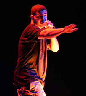 Drake Performs Live at the Fox Theatre Cropped version of original